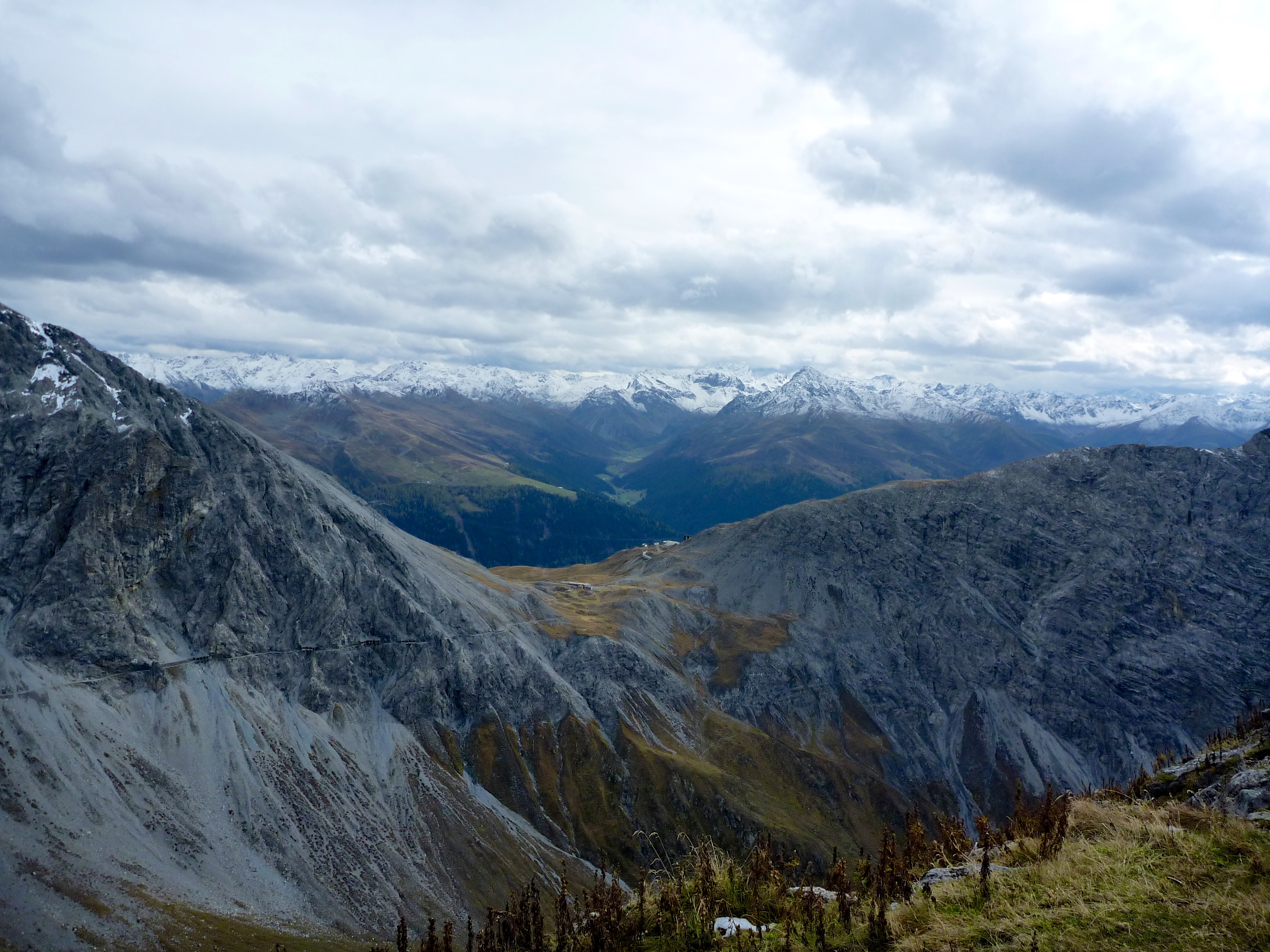 Strela Pass between Langwies and Davos/Switzerland as seen from Haupterhorn